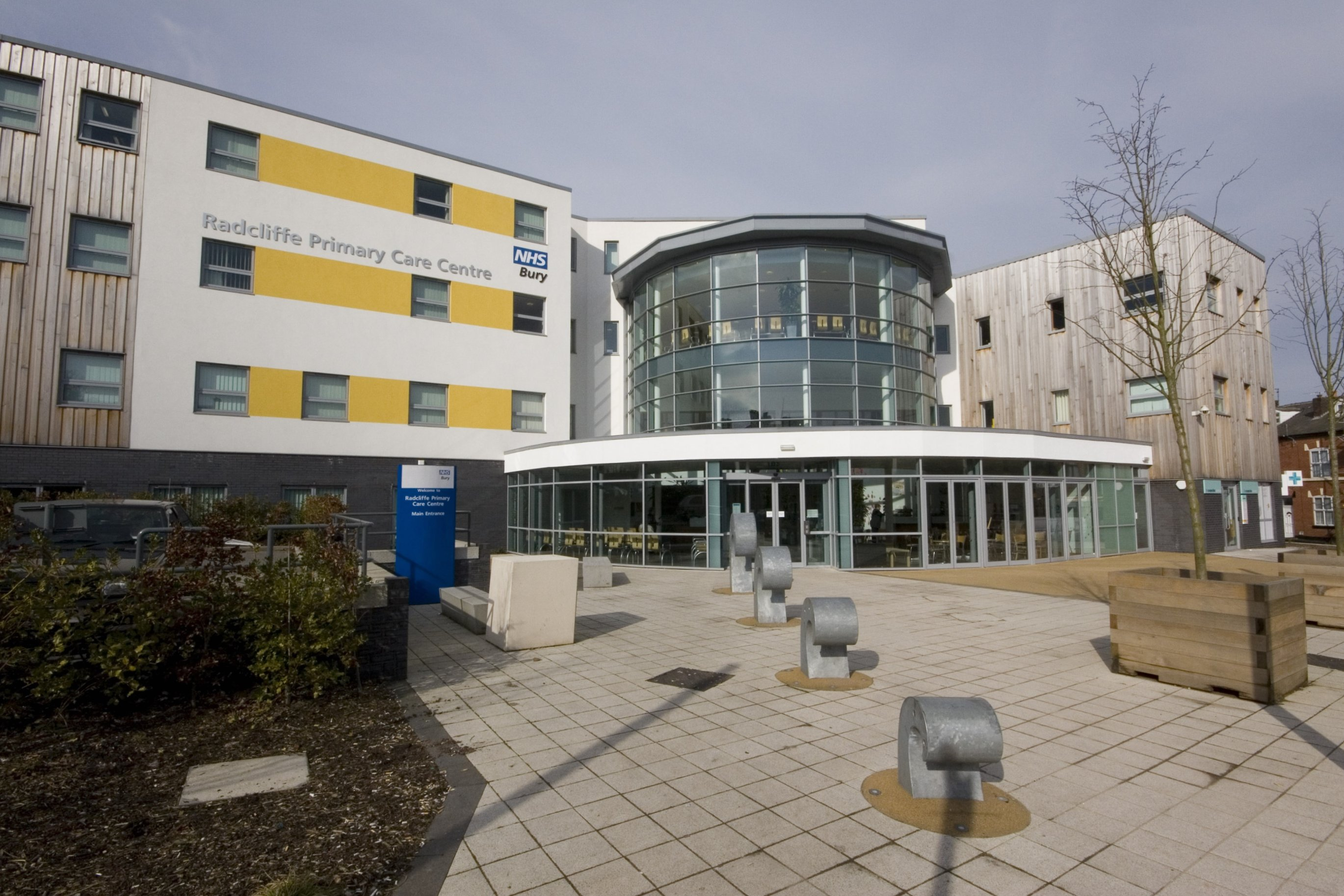 Radcliffe Primary Care Trust, on Church Street, in Radcliffe, Greater Manchester, UK